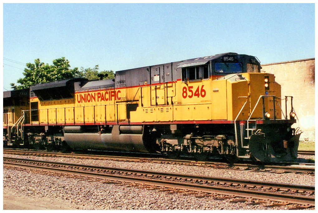 Union Pacific Railroad 8546 EMD SD90MAC-H II